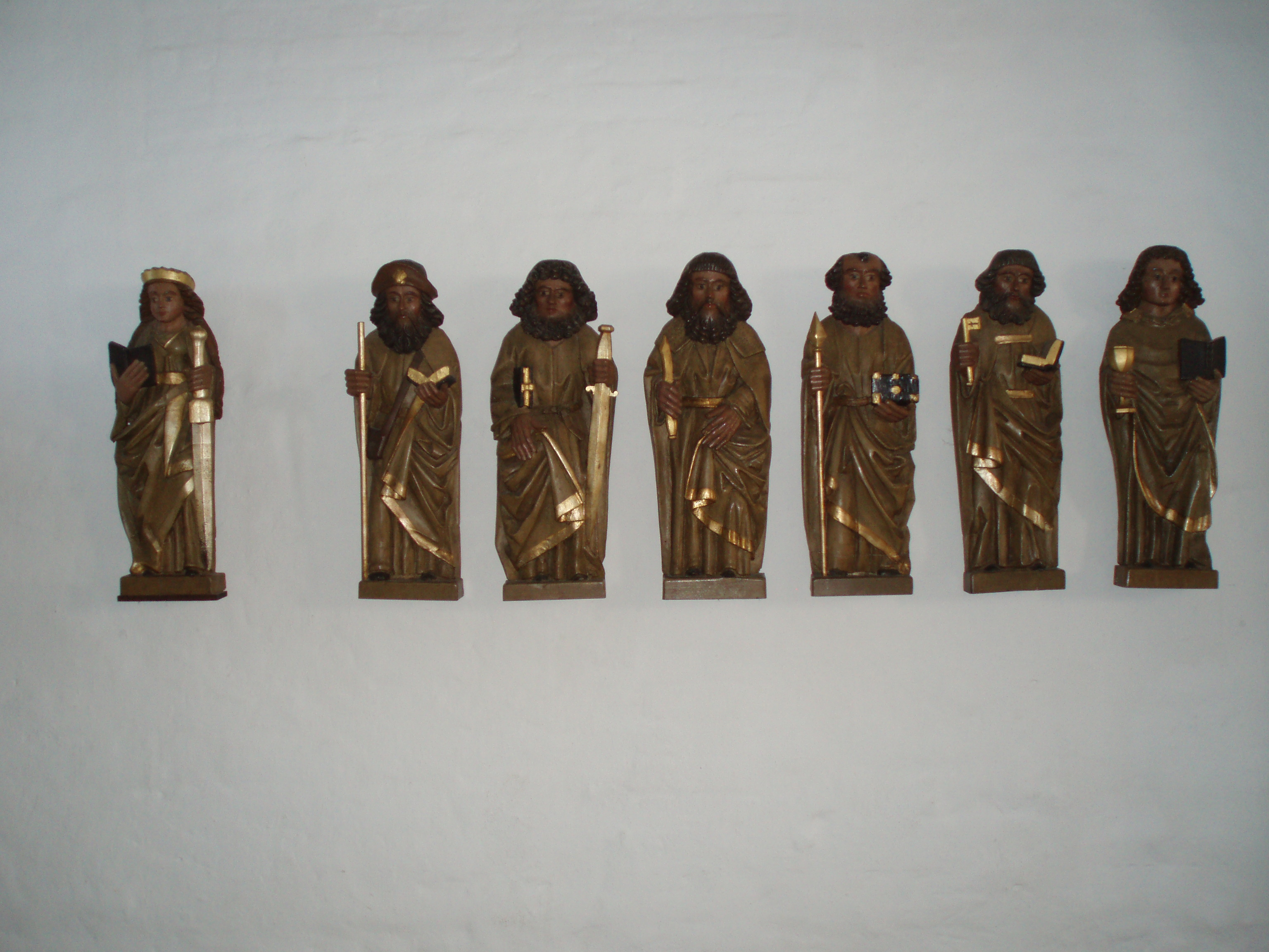 Jelling Kirke in Jelling, Denmark. Sancta Catharina and six apostles. Photographer: User:Brams